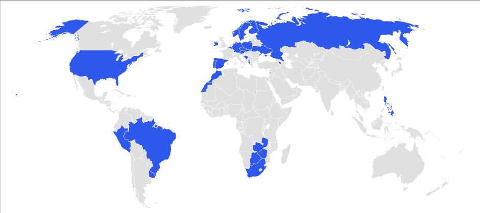 this is a world map showing which countries ratified the convention